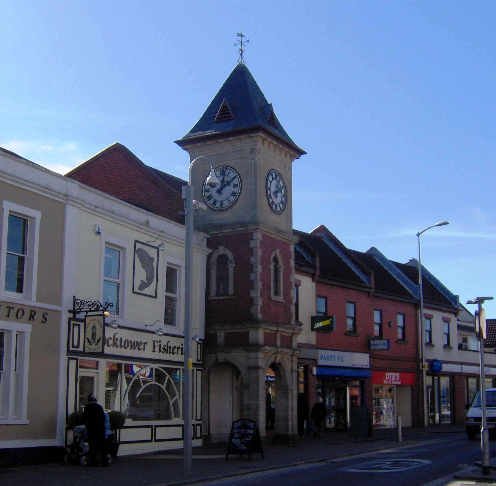 The clock tower in Kingswood